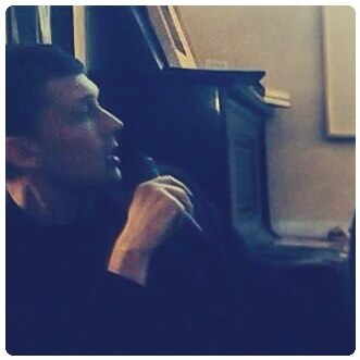 Maurizio Matrone, Italian writer, during the Book City Milano 2013 festival